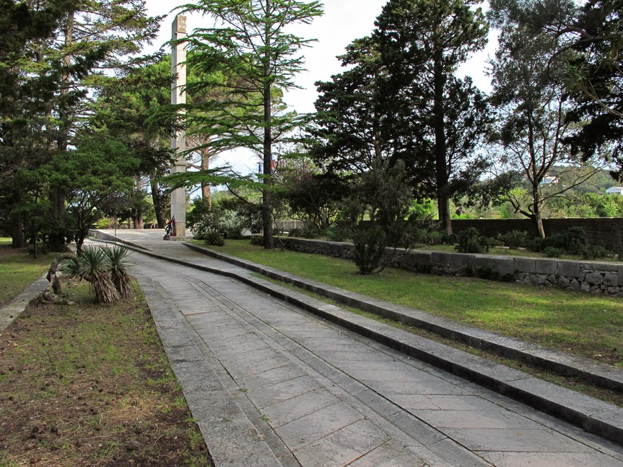 Kampor Memorial Area (Rab), view at the central monument.